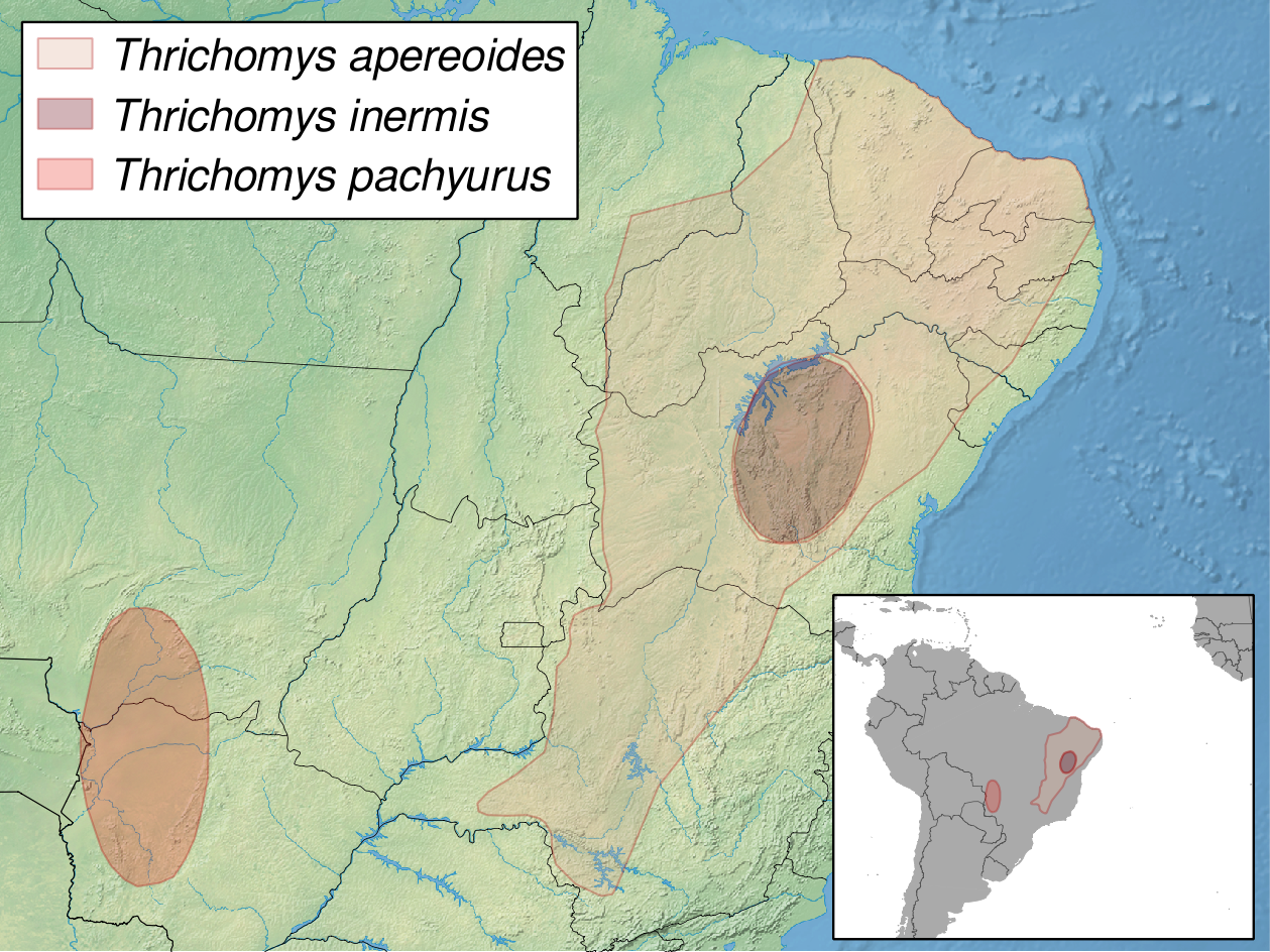 geographic distribution of Thrichomys sp. Thrichomys apereoides Thrichomys inermis Thrichomys pachyurus